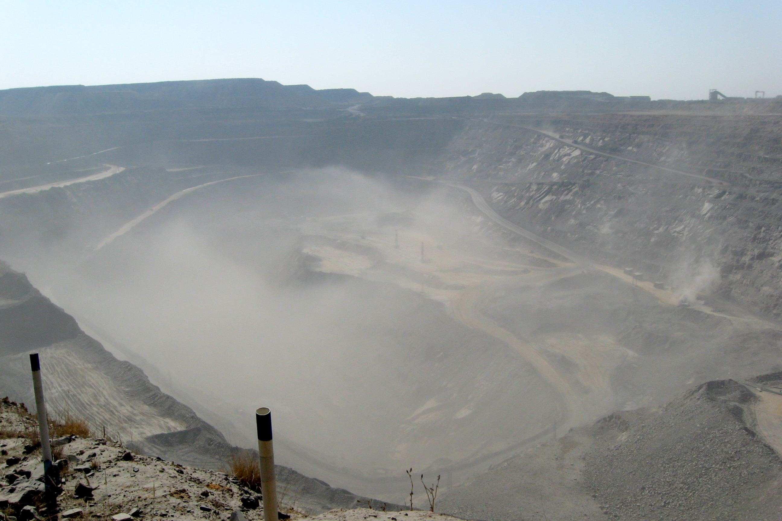 Open mine on a dust-disturbed day, Jwaneng Diamond Mine, Botswana.